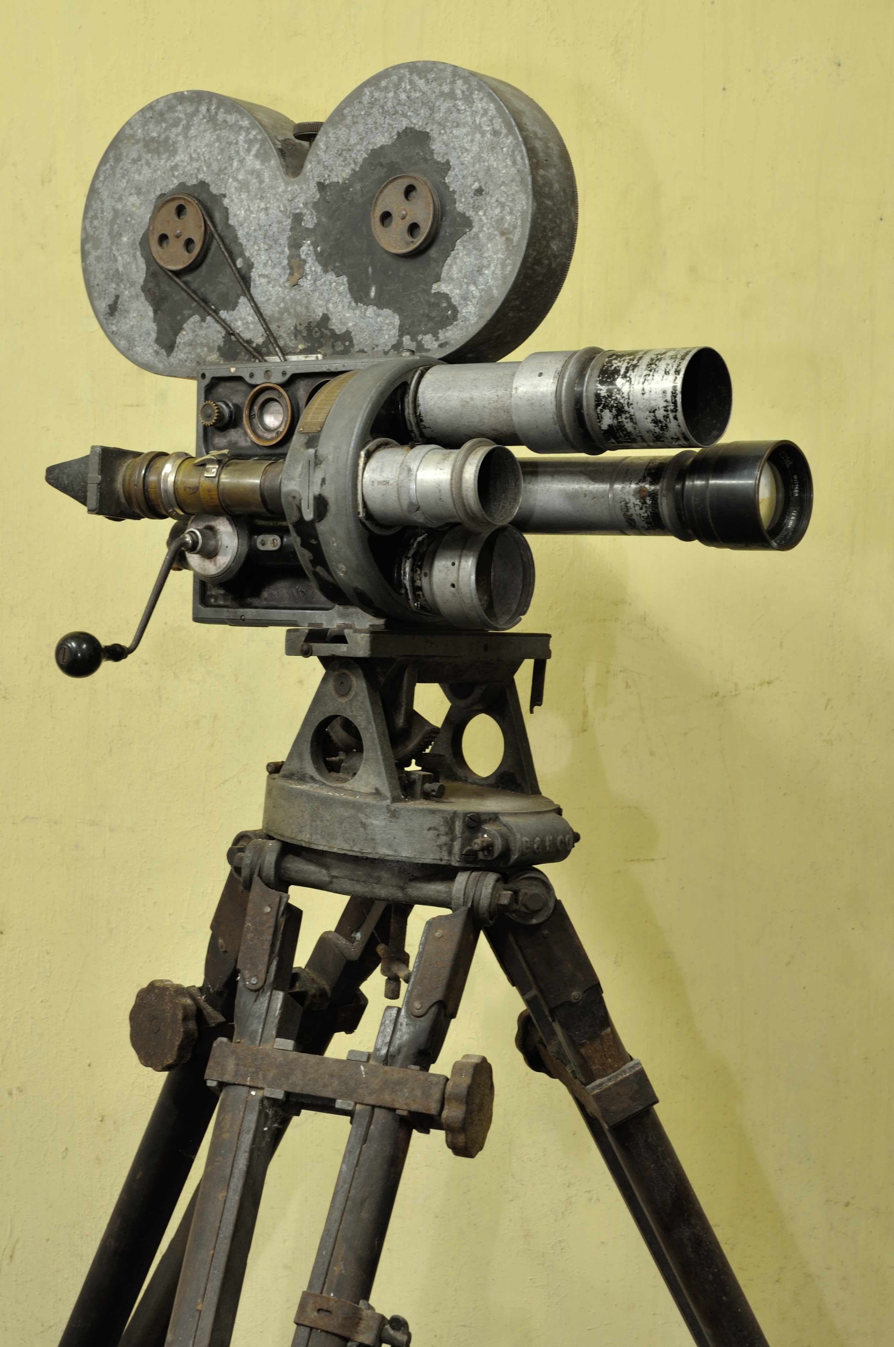 Cinematographic artifact that used in Kolkata. Bell & Howell 2709 movie camera